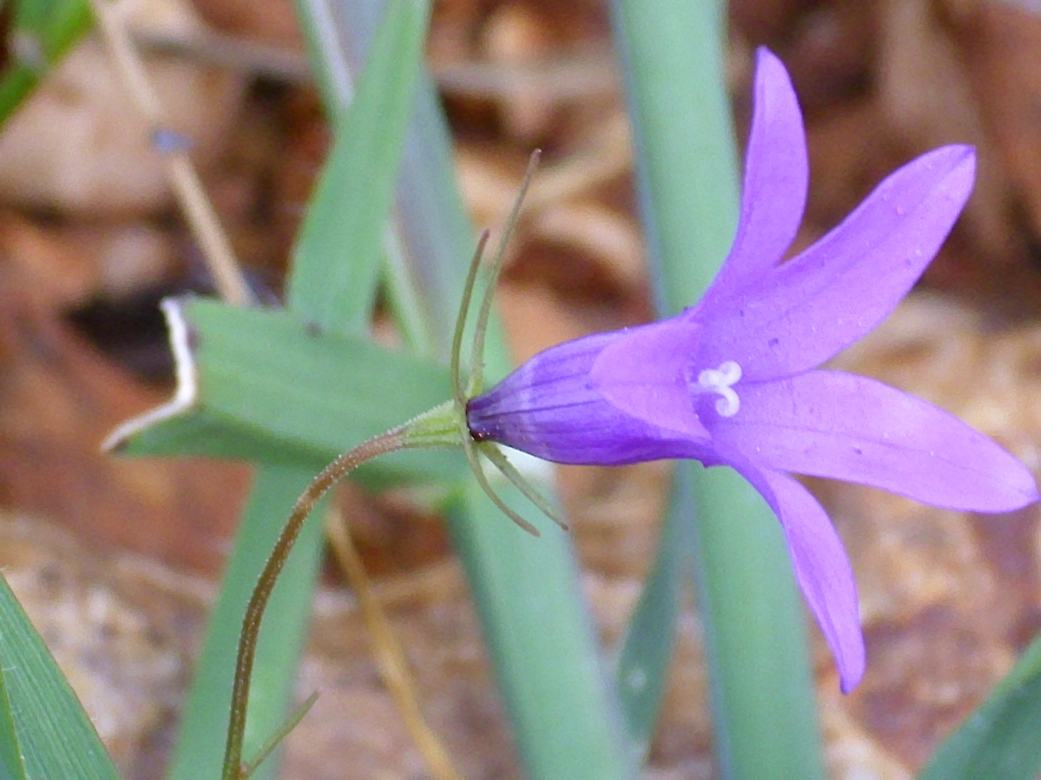 Campanula lusitanica flower close up, Campo de Calatrava, Spain